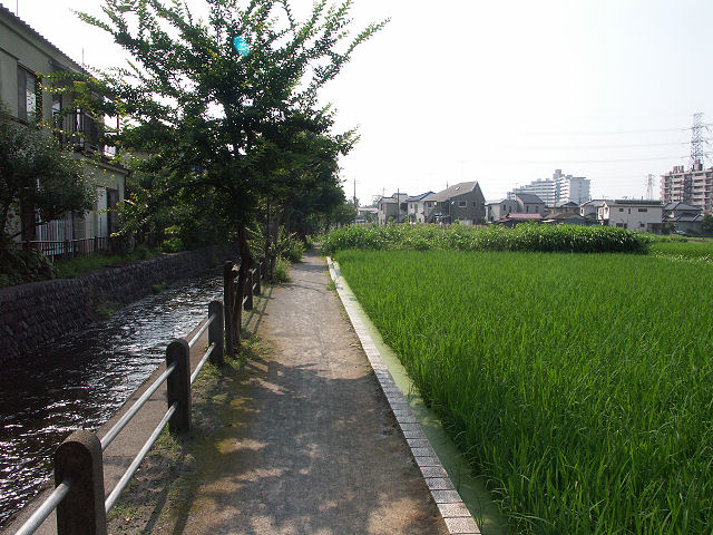 今も灌漑用水として利用されつつ親水公園としても整備されている大丸用水 撮影日：2005年 7月18日 撮影地：大丸親水公園（東京都稲城市大丸） 撮影者：cory 出典： Oomaru_yosui (Oomaru waterway for irrigation), using for paddy field. Date: 2005-07-18 (Jul 18, 2005) Place: Omaru-Shinsui-koen (park), Omaru Inagi Tokyo, Japan. Author: ISAKA Yoji (cory)